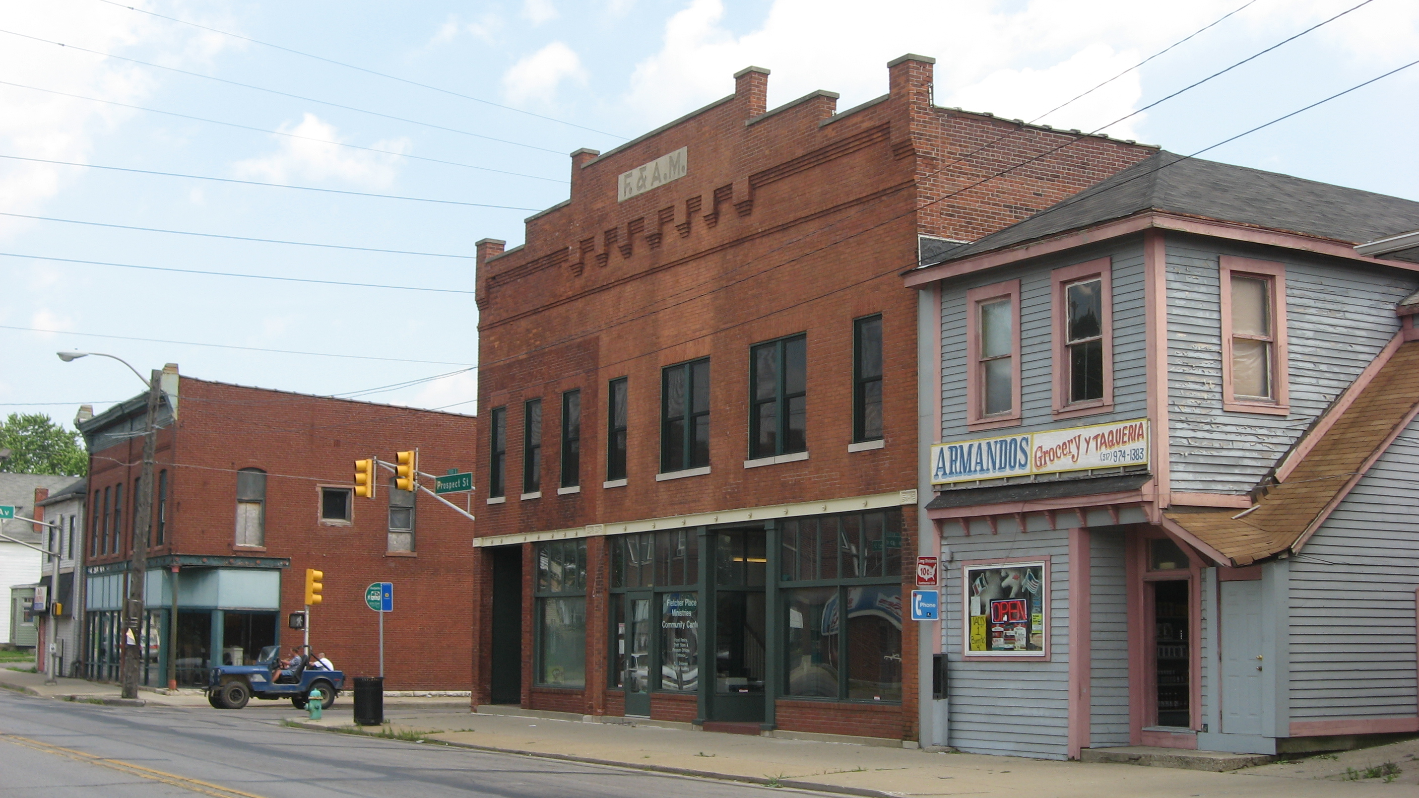 Buildings on the southeastern (left) and southwestern (right) corners of the intersection of State and Prospect Streets in Indianapolis, Indiana, United States. These buildings are part of the State and Prospect District, a historic district that is listed on the National Register of Historic Places.